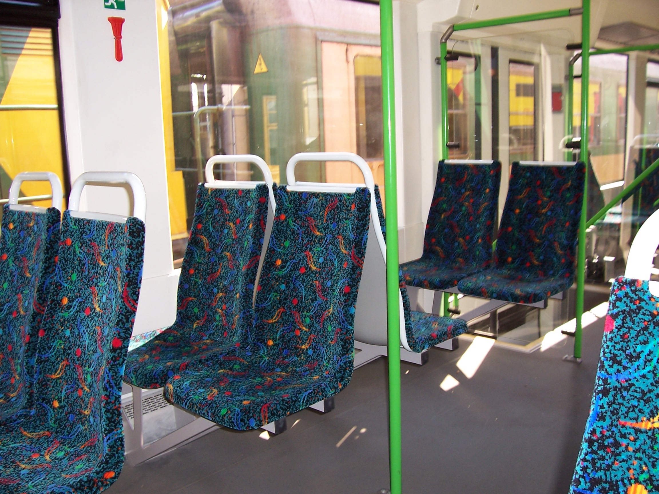 Interior view of 214Ma railcar (SA103-005) made by PESA Bydgoszcz works.